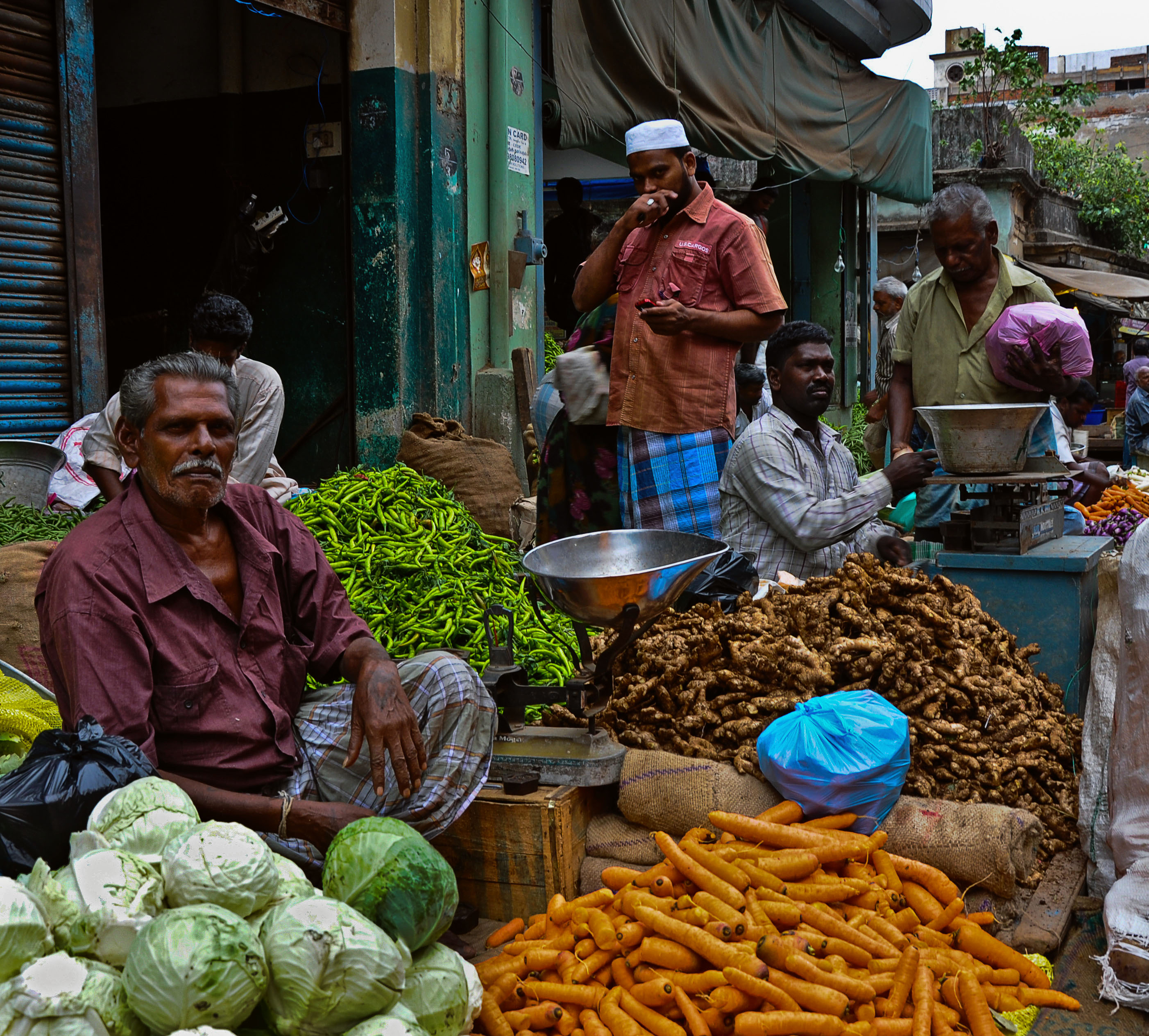 Parrys corner veg market